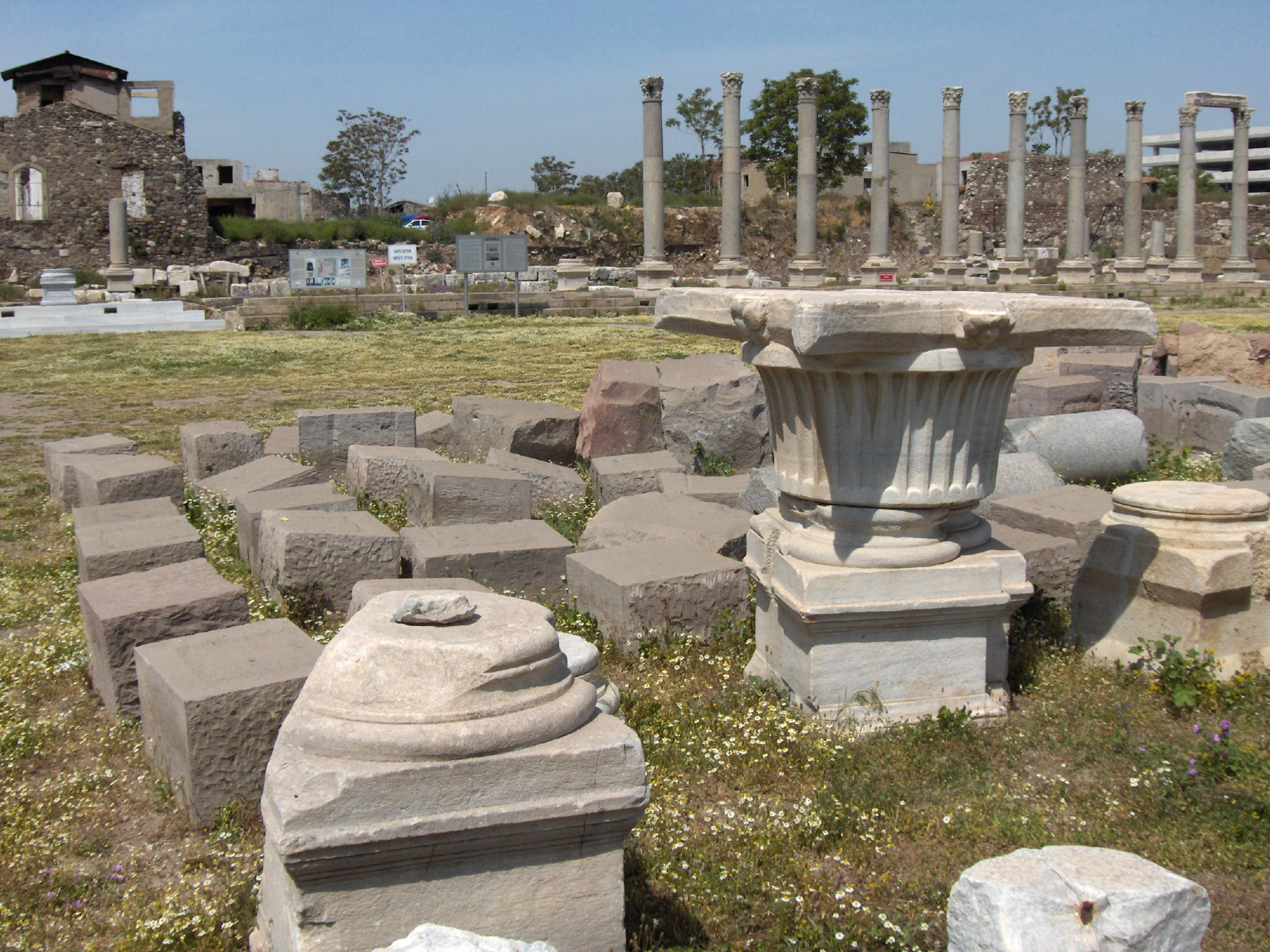 View on the agora; in the back : columns along the western stoa; Izmir, Turkey